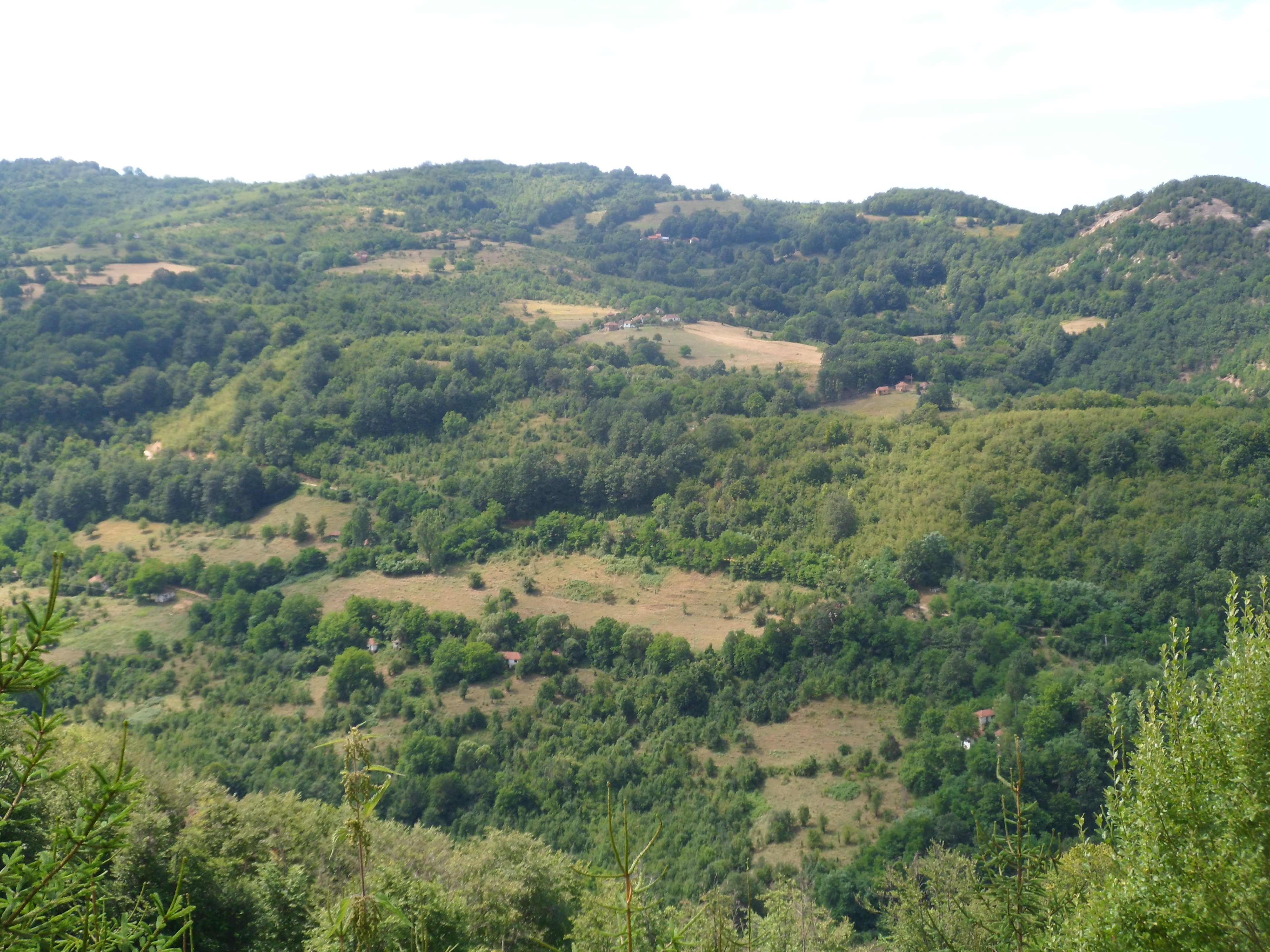 own work, taken in 2017 from the eastern part of the village note the vegatation which has started to cover many Albanian minority abandoned homes since the 1999-2001 conflict in Kosovo and around Medvedja municipality